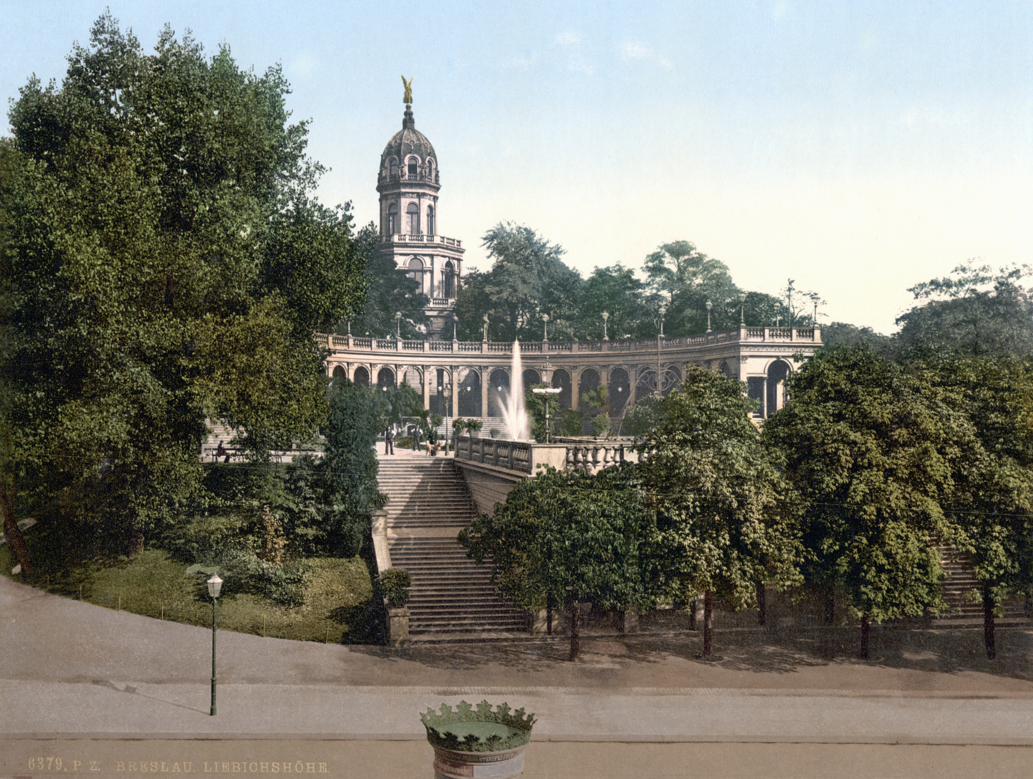 Liebichshöhe, Breslau, Silesia, Germany (i.e., Wrocław, Poland)